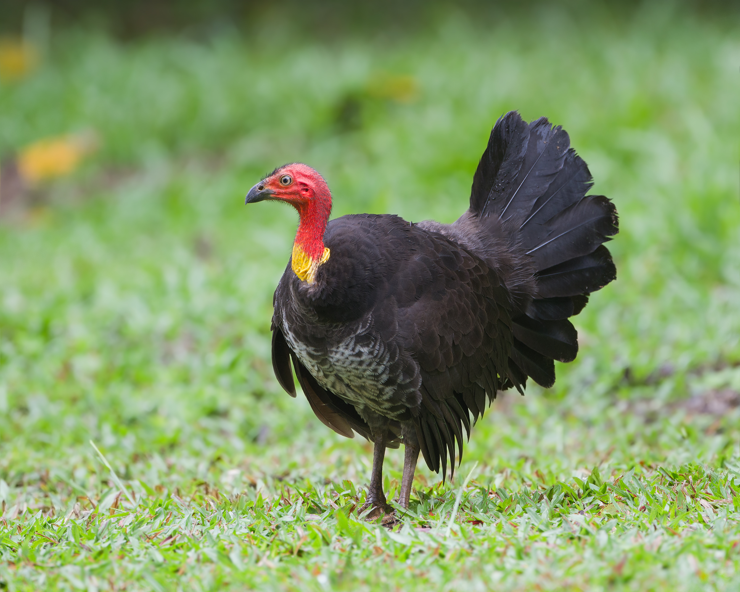 Australian Brush-turkey (Alectura lathami), Centenary Lakes, Cairns, Queensland, Australia